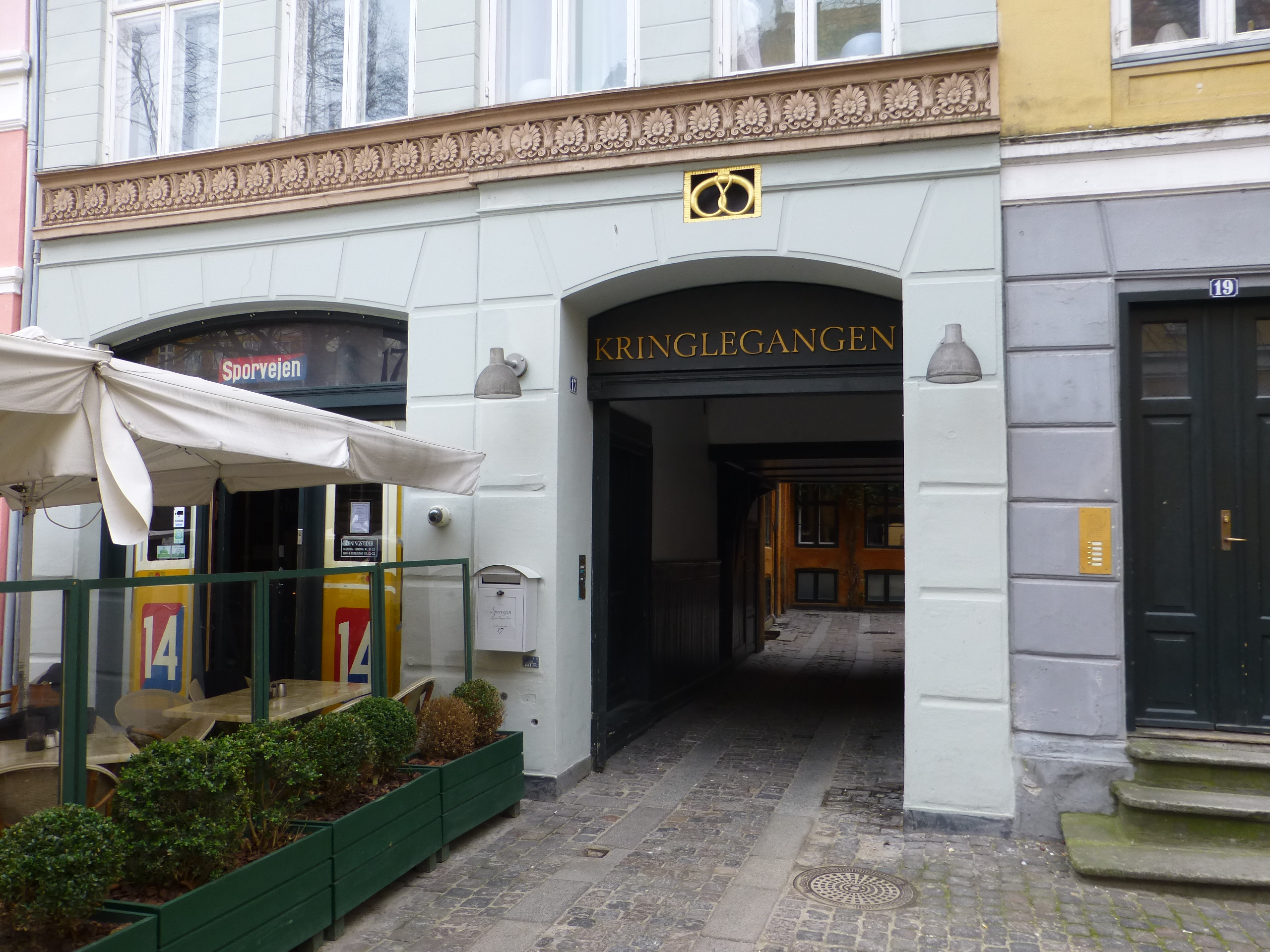 The passageway Kringlegangen between Gråbrødretorv and Valkendorfsgade in Indre By in Copenhagen. Entrance from Gråbrødretorv.